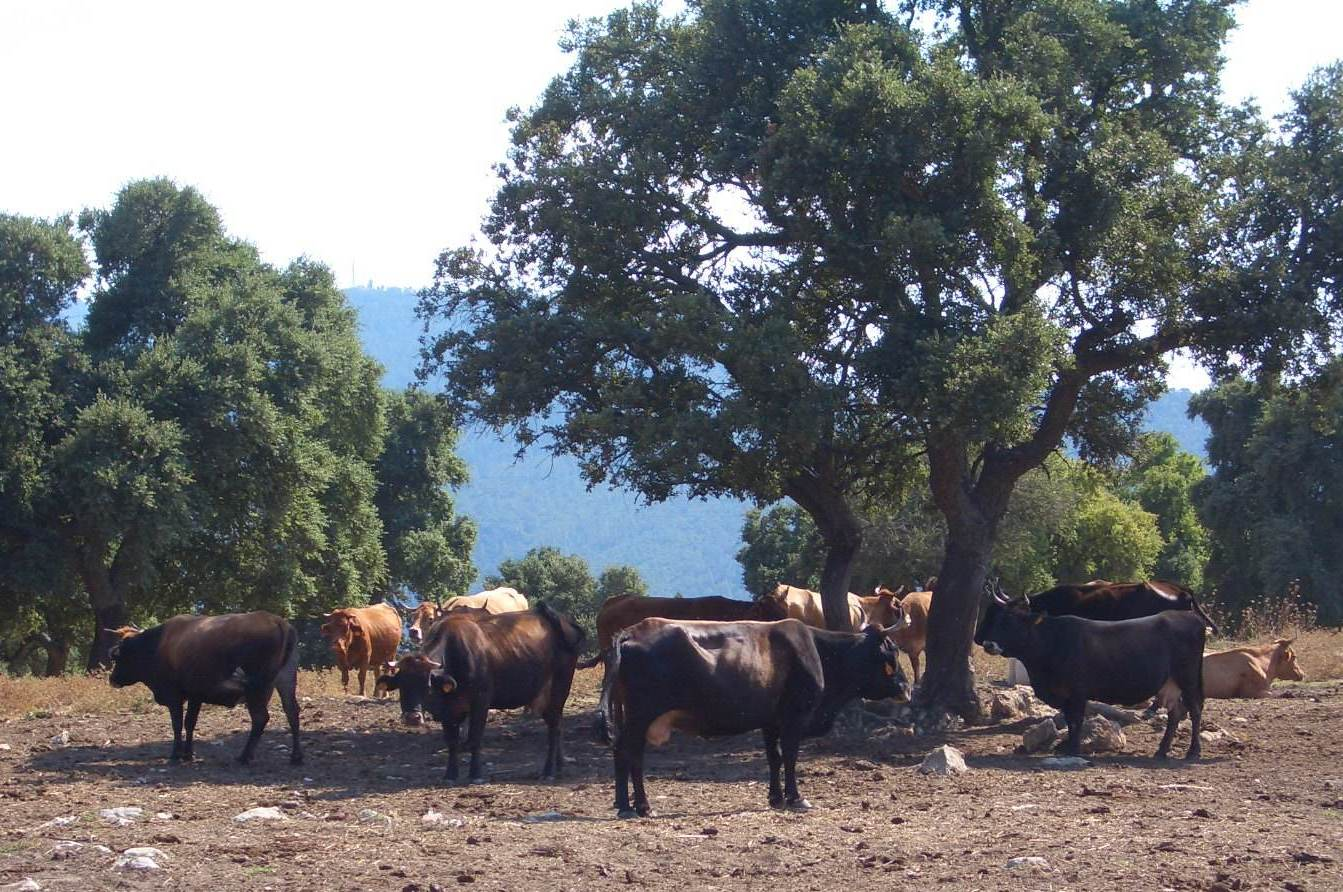 Cattle herd in the Castagniccia, Corse